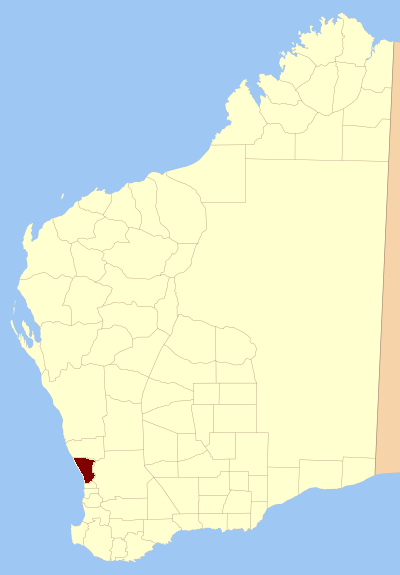 Location of the Swan district in Western Australia, part of the Cadastral divisions of Western Australia